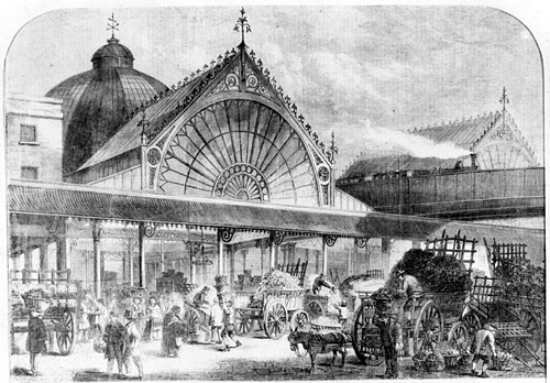 Borough Market, circa 1860. From the Illustrated London News?